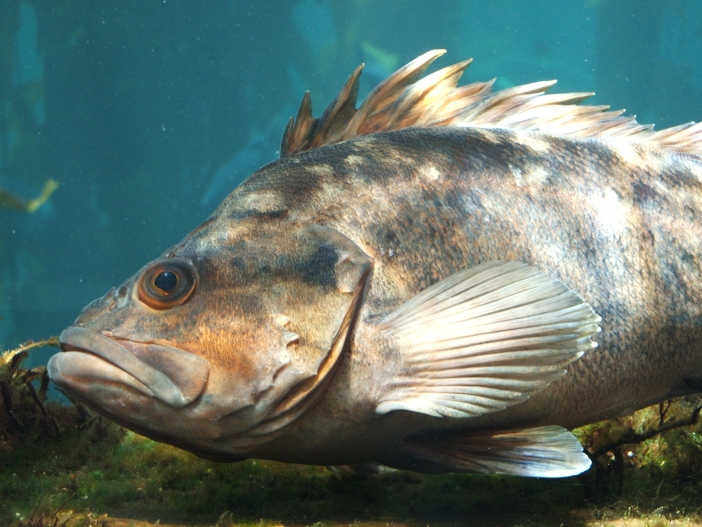 Monterey Bay Aquarium